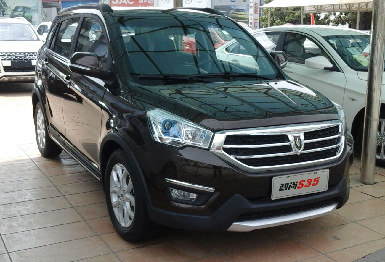 Jinbei S35 photographed in Xi'an, Shaanxi province, China.